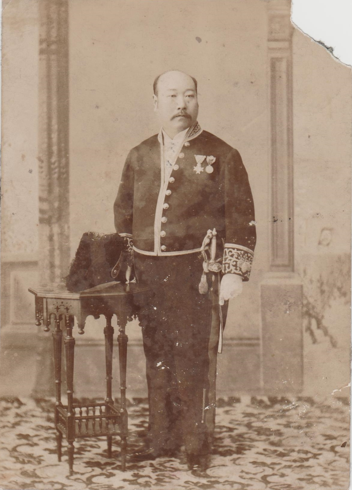 Portrait of Teizo Iimori, Doktor der philosophie